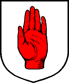 Arms of Ulster.